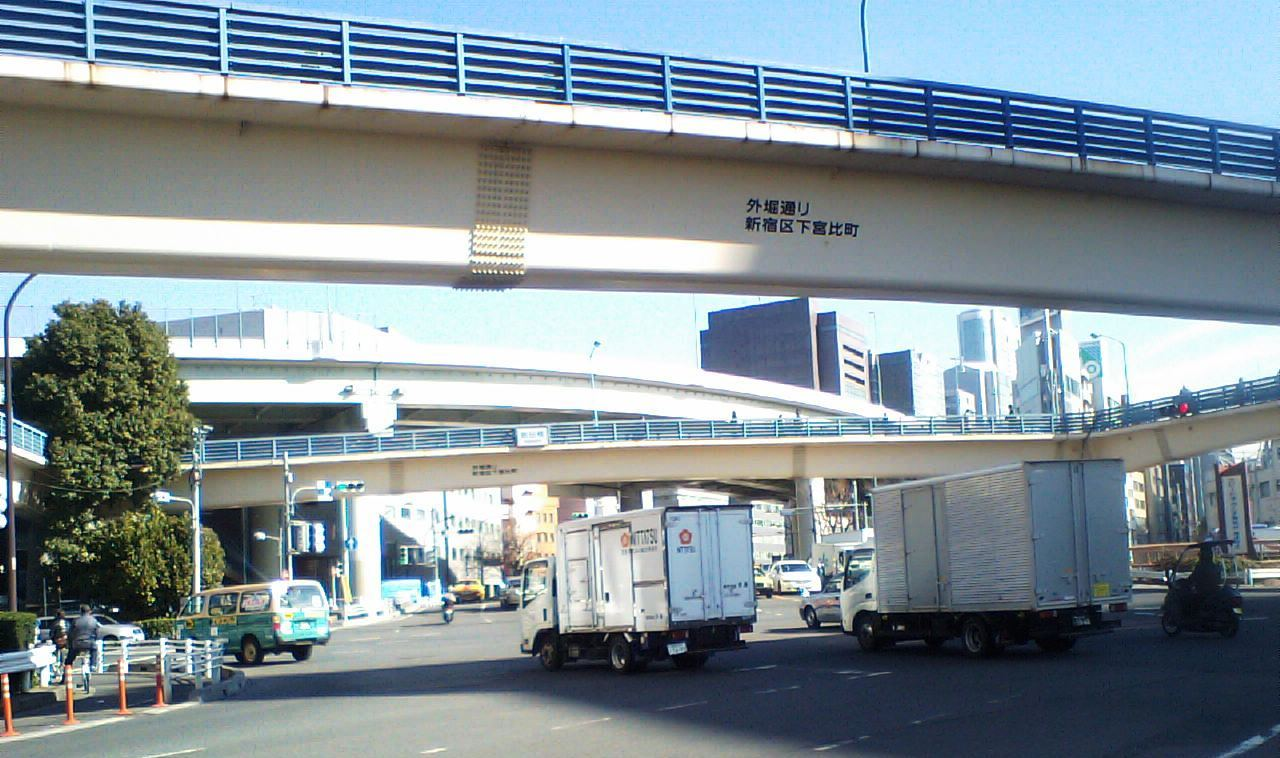 Simomiyabicho, Shinjuku-ward, Tokyo-city,Japan. Iidabashi Crossing